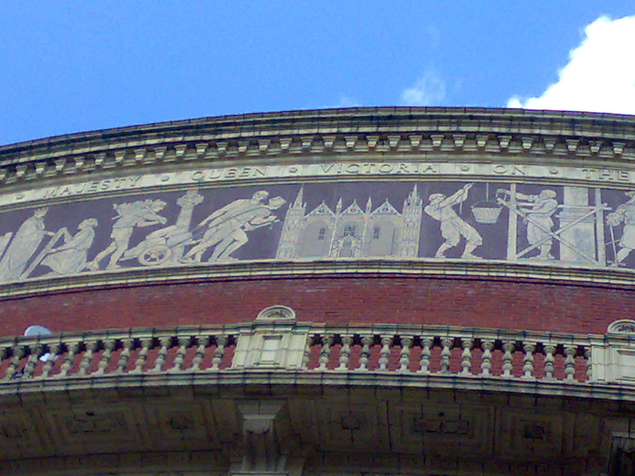 A portion of the terracotta frieze running around the Royal Albert Hall, showing the representation of the West Front of Peterborough Cathedral